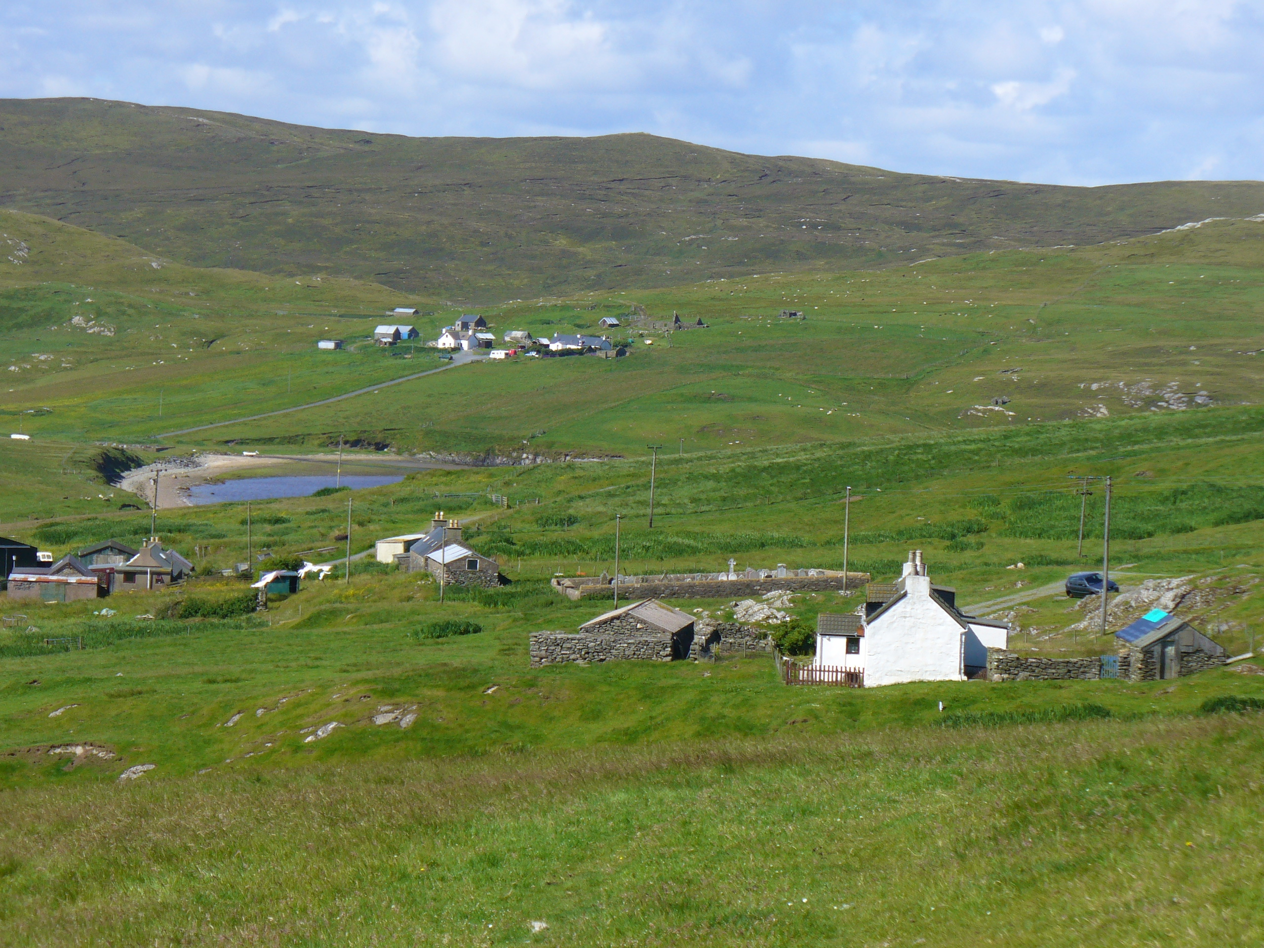 Isbister from the East, with the southern tip of the inlet of Sand Voe in the middle and the hamlet of Sandvoe in the background.